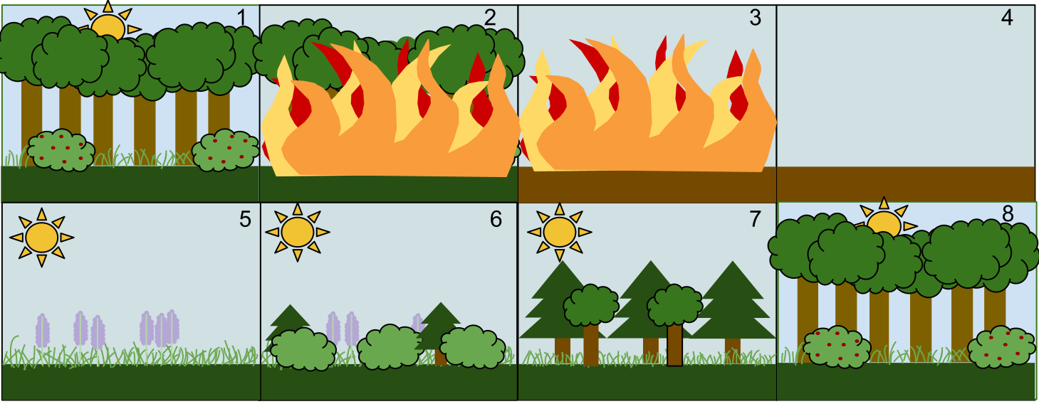 This is an example of Secondary Succession by stages: 1. A stable deciduous forest community 2. A disturbance, such as a wild fire, destroys the forest 3. The fire burns the forest to the ground 4. The fire leaves behind empty, but not destroyed, soil 5. Grasses and other herbaceous plants grow back first 6. Small bushes and trees begin to colonize the area 7. Fast growing evergreen trees develop to their fullest, while shade-tolerant trees develop in the understory 8. The short-lived and shade intolerant evergreen trees die as the larger deciduous trees overtop them. The ecosystem is now back to a similar state to where it began.